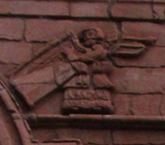 Musicians angles (harpist). Detail at the main gate in the ruins of the Jesuitic Mision of La Santisima Trinidad de Paraná, in Paraguay.